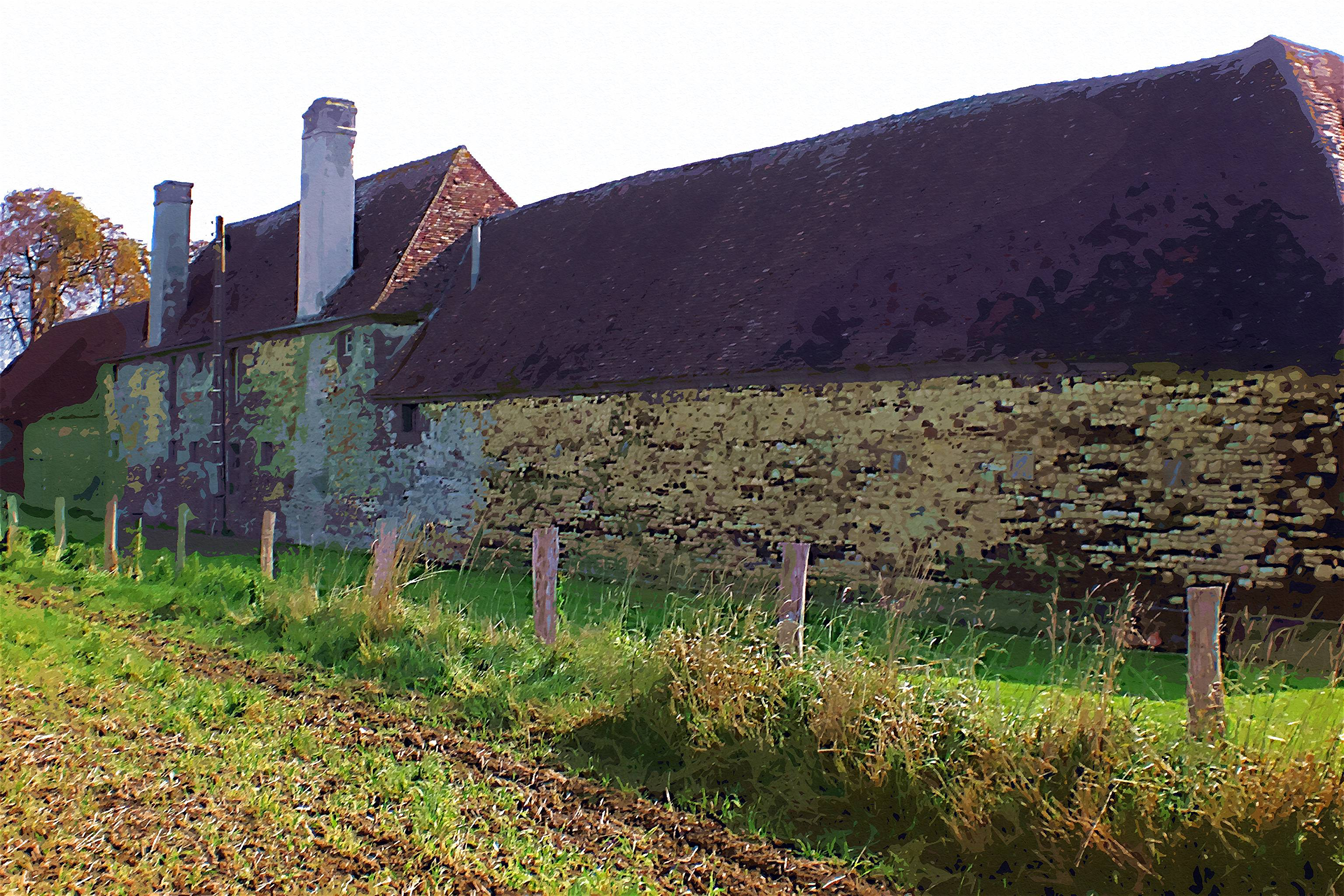 Farm of la Motte in Joue du Plain